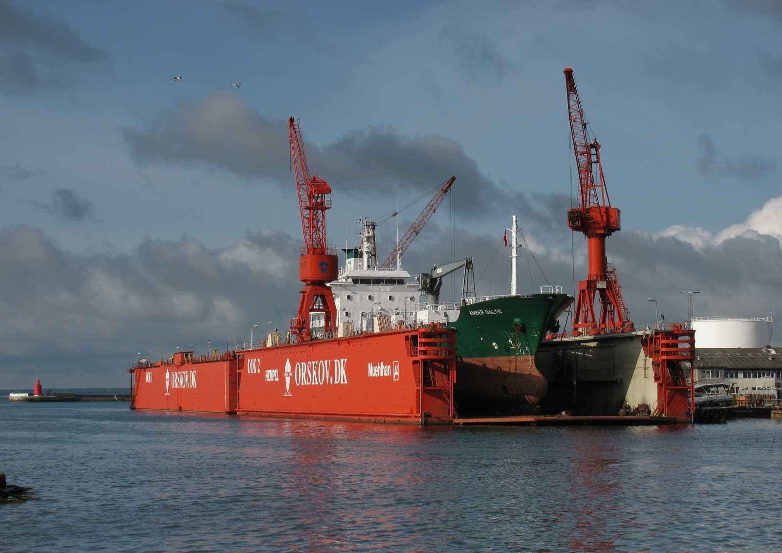 Amber Baltic IMO 8513273